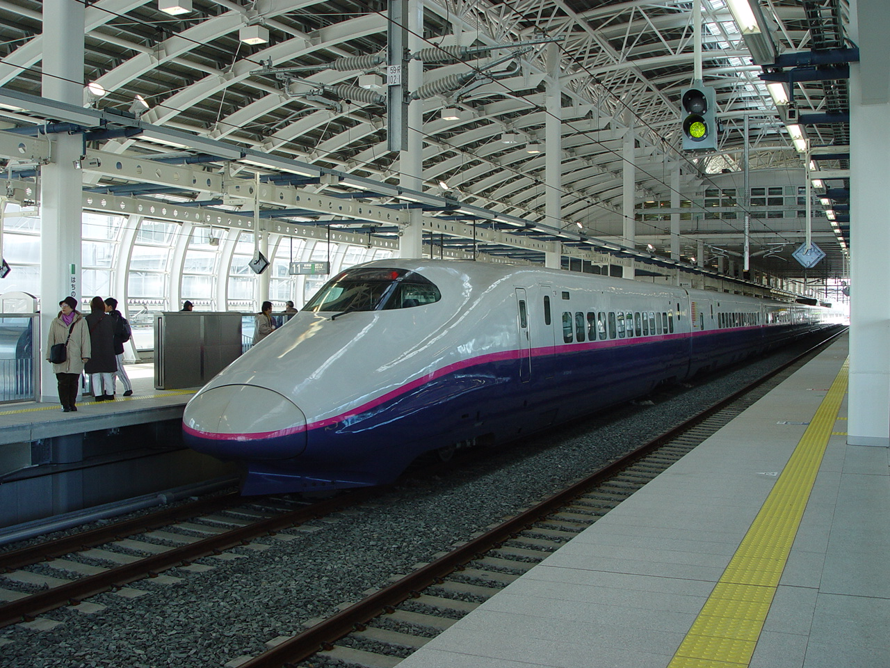 JR East E2 series shinkansen set J3 at Hachinohe station after arriving on the Hayate 1 service from Tokyo